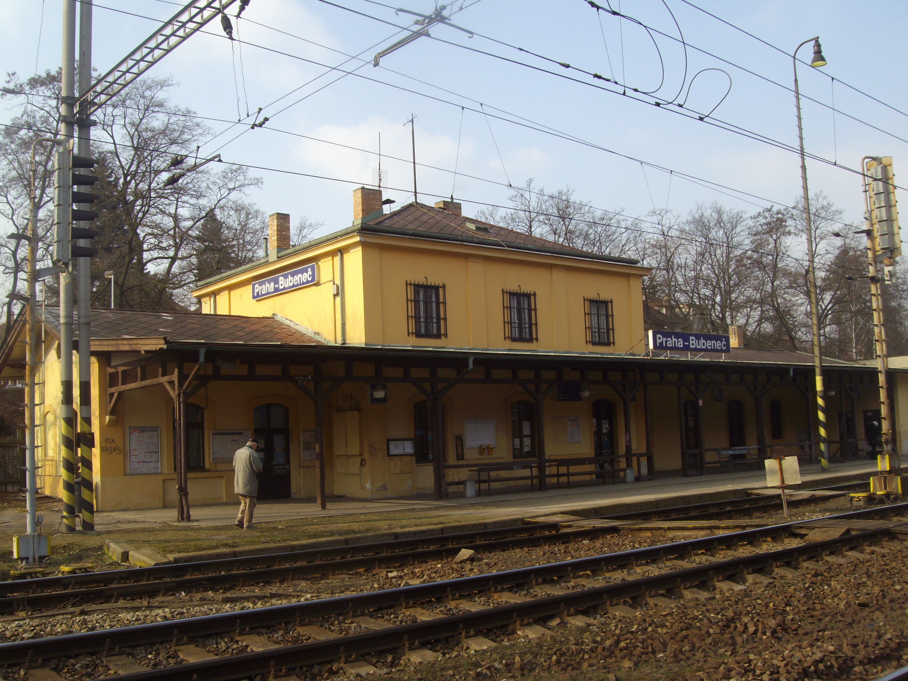 Railway Station Praha-Bubenec